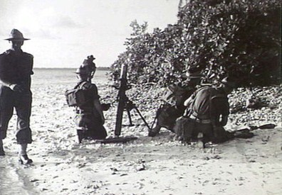 Australian War Memorial image 084614. A mortar team from the Australian Army's 27th Battalion during training on Sirot Island.